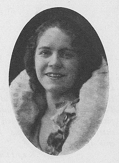 Finnish theatre personality, early 1930s.